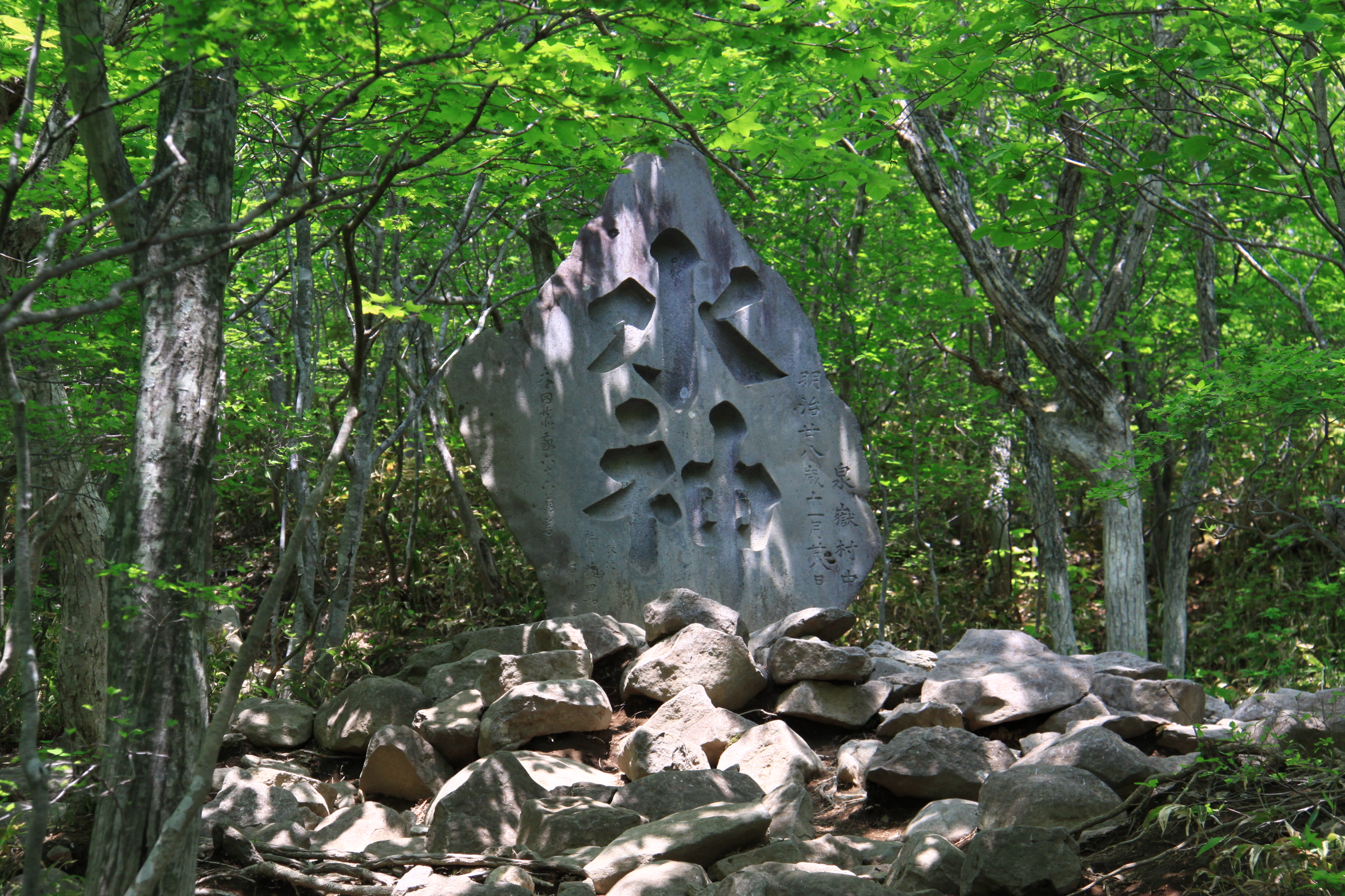 Suijinhi is the monument of Water God. This is builded in Mt.Izumigatake.